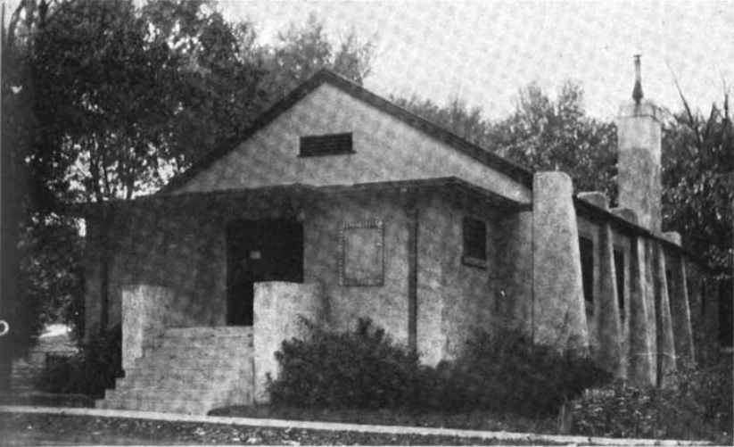 Webster Groves, Missouri Public Library unknown date